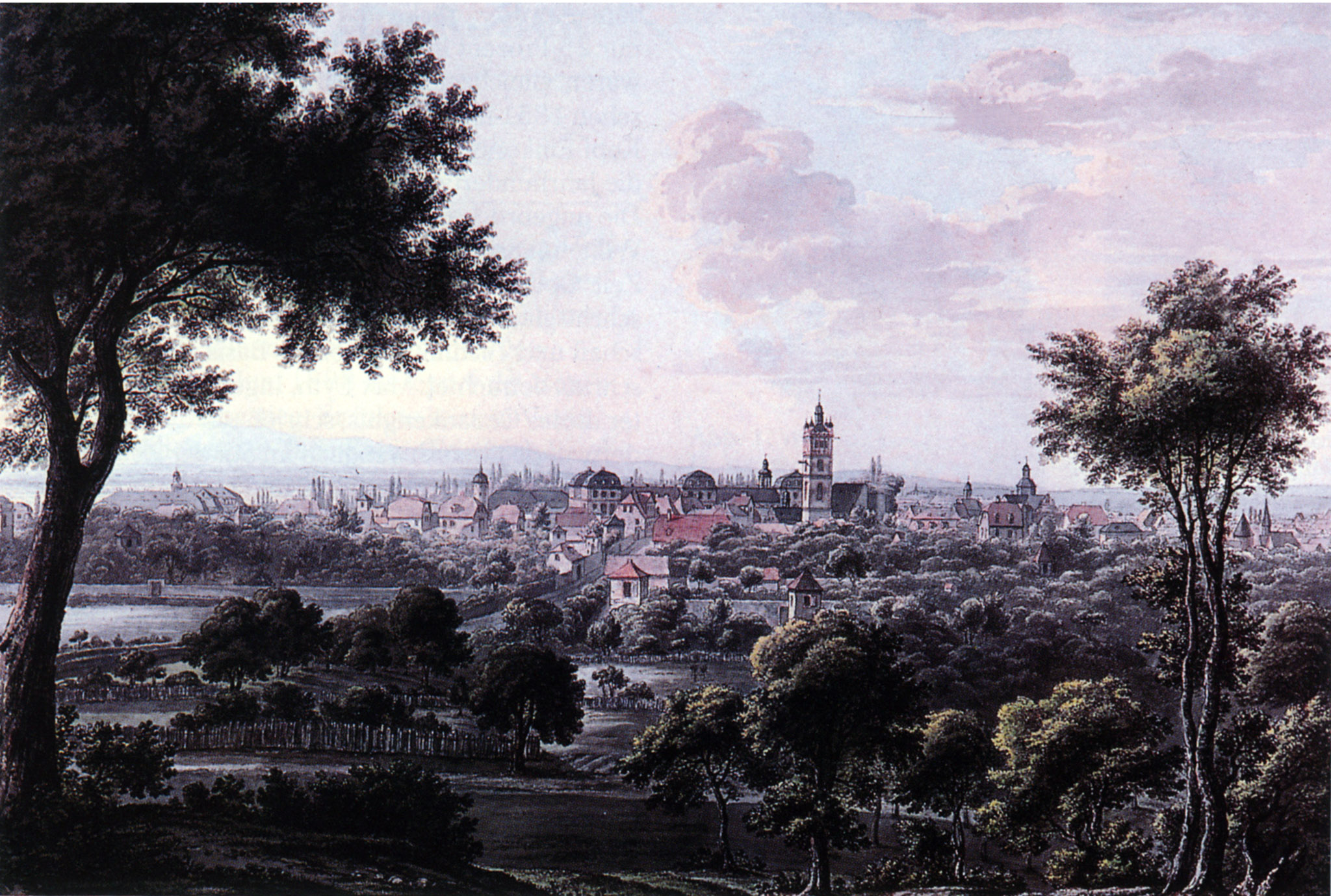 The city of Darmstadt. Artist: Johann Heinrich Schilbach